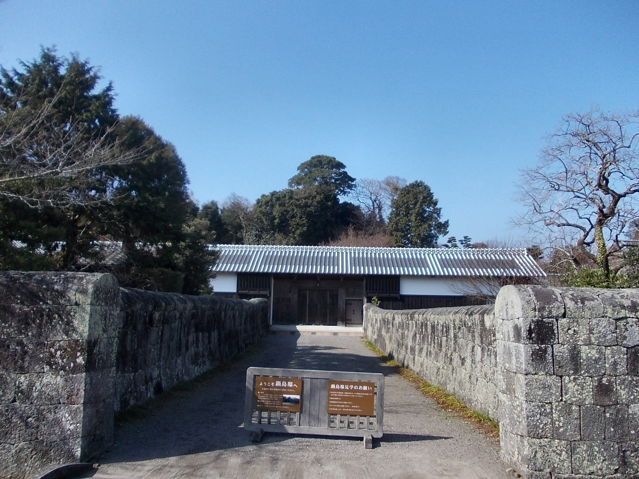 The Kojirokuji Nabeshima Family Residence Nagayamon gate and its stone fences, Unzen, Nagasaki, Japan